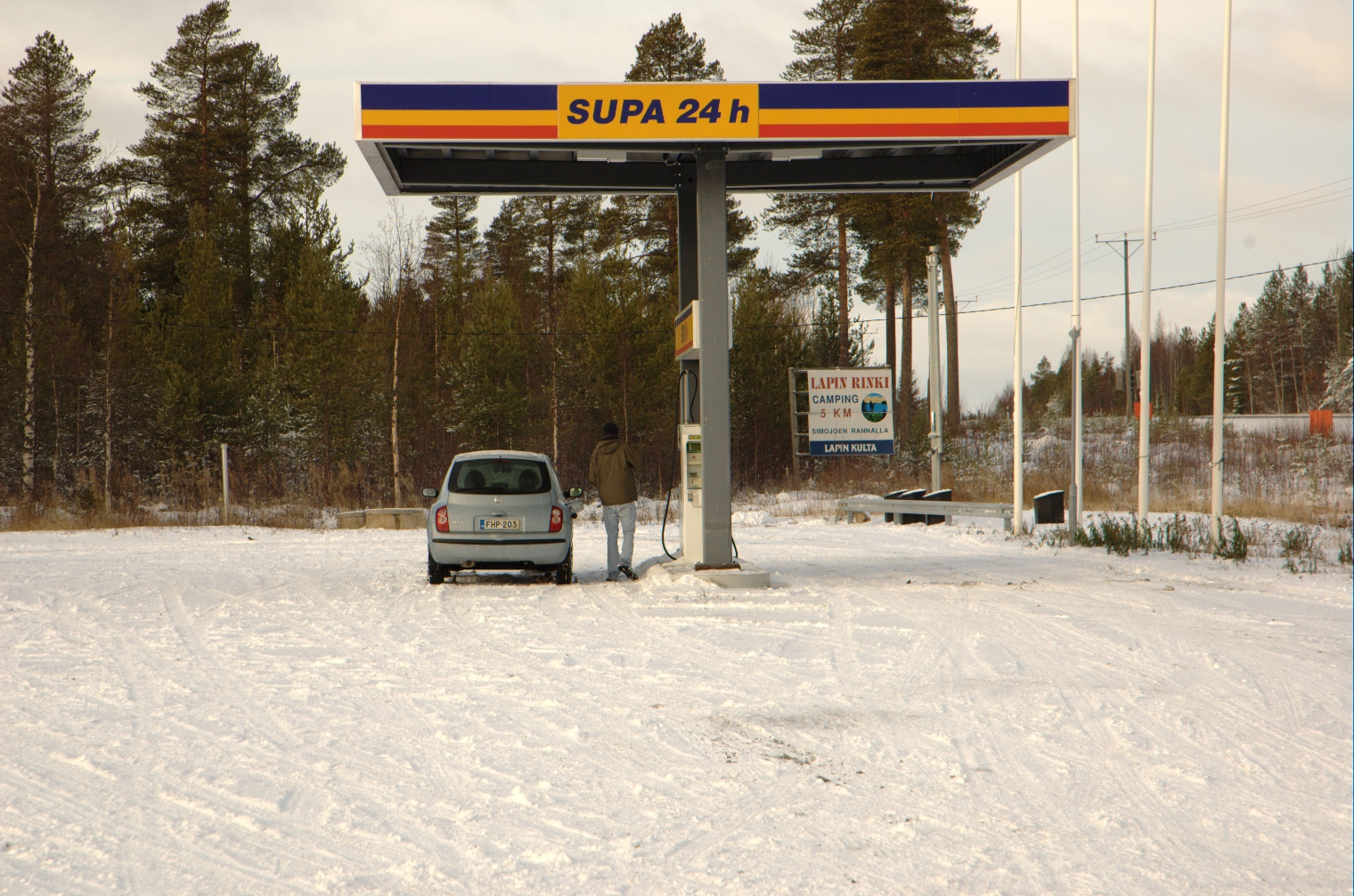 Supa petrol station in Simo, Finland